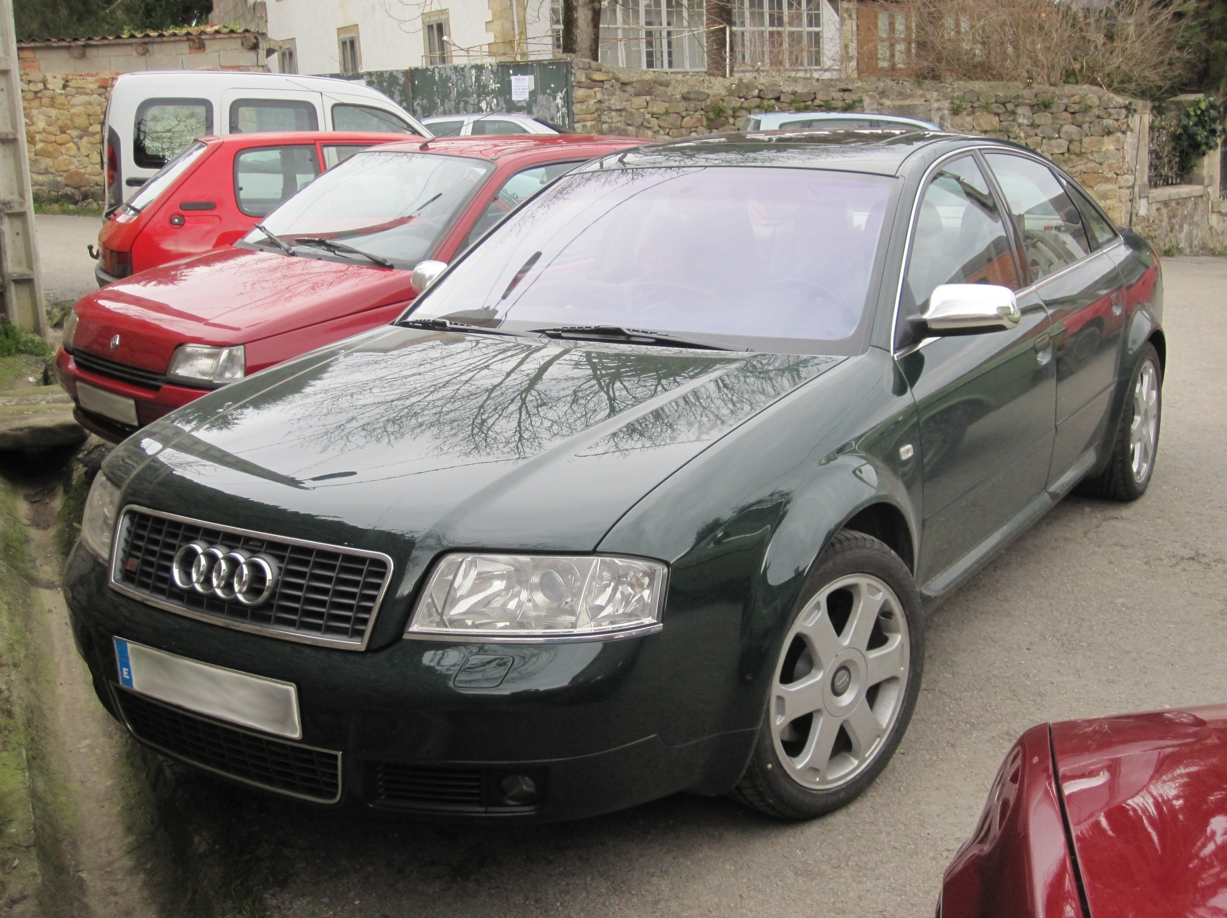 Erm... I didn't see the woman inside when I took this front picture... :S